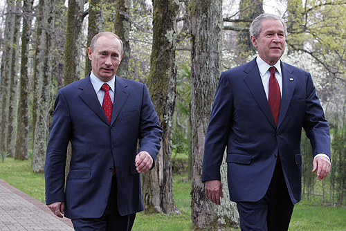 BOCHAROV RUCHEI, SOCHI. With American President George W. Bush before the beginning of a briefing for journalists following the Russian-American talks.